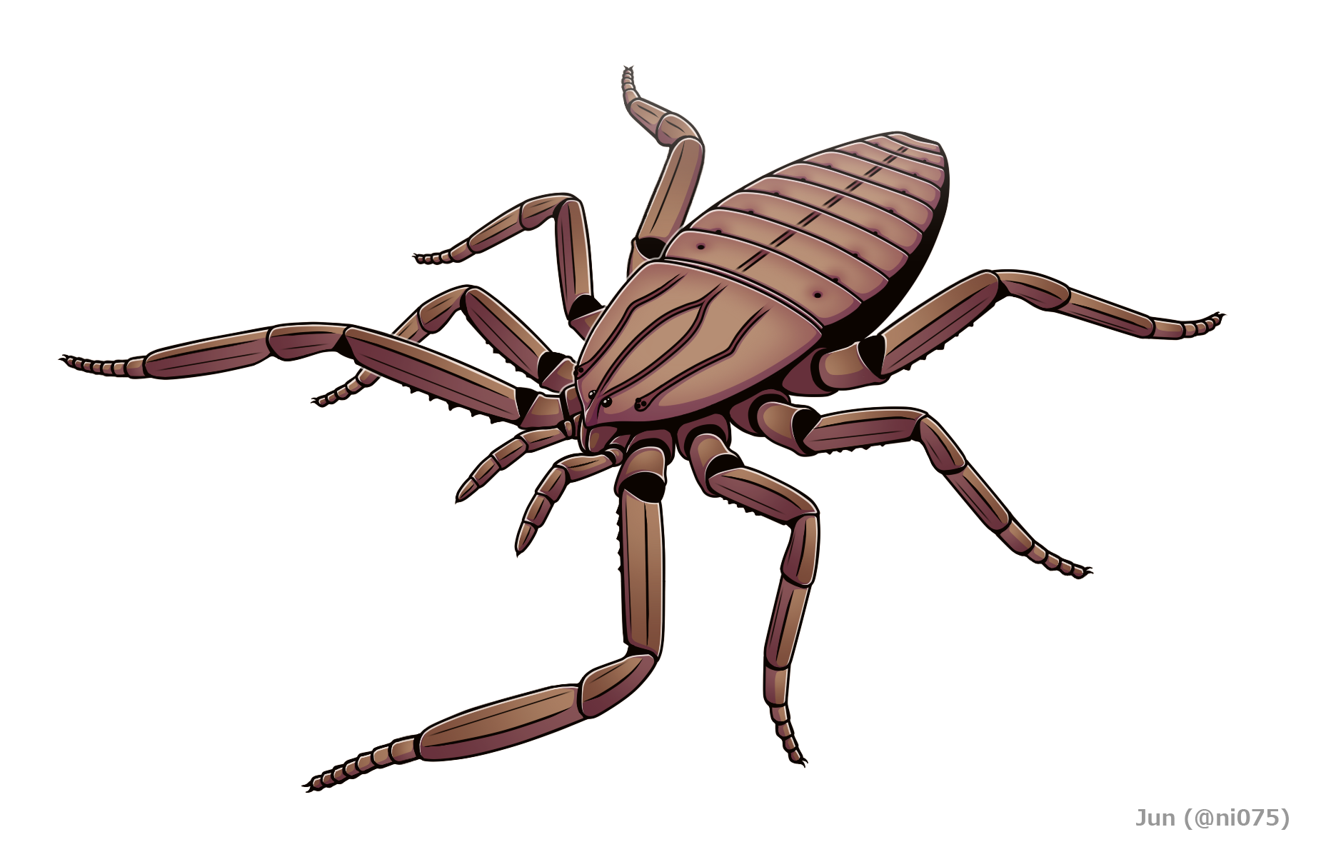 Reconstruction of Plesiosiro madeleyi, a carboniferous haptopod (chelicerate, arachnid). Lateral eyes and claws of pedipalps and legs are conjectural.